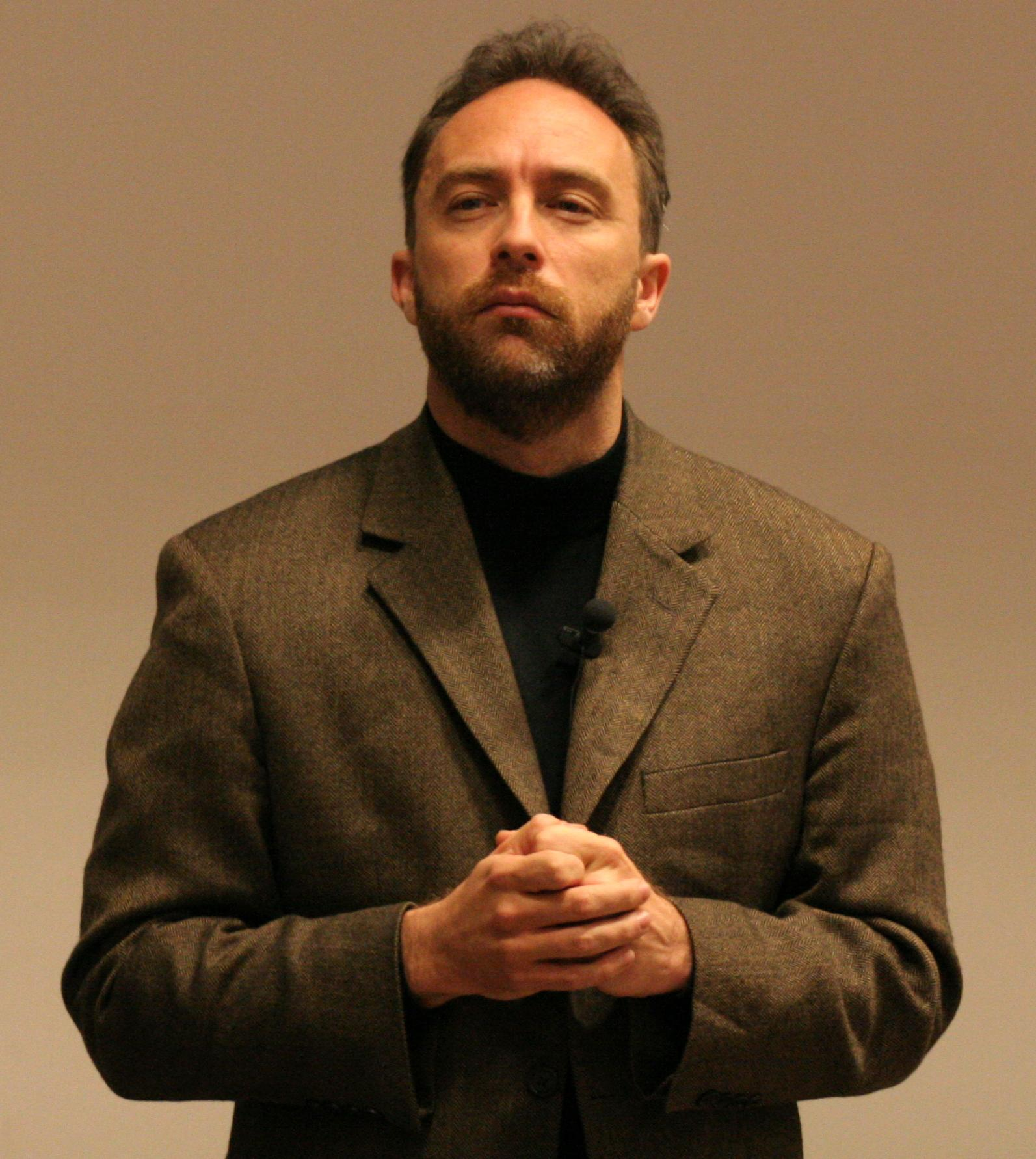 Jimbo Wales speaking at FOSDEM 2005 in Brussels, Belgium, cropped.